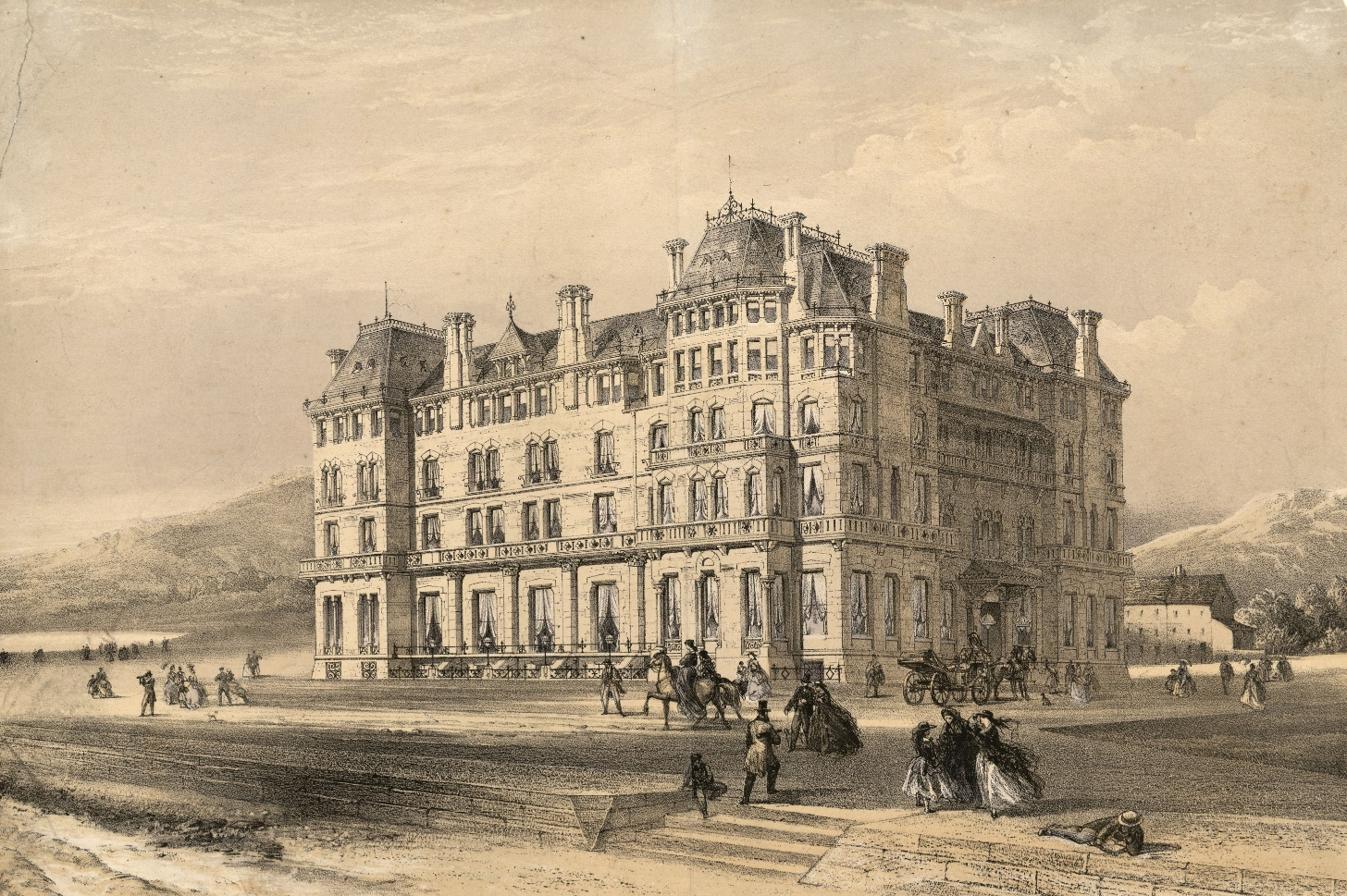 The Queen's Hotel, Aberystwith